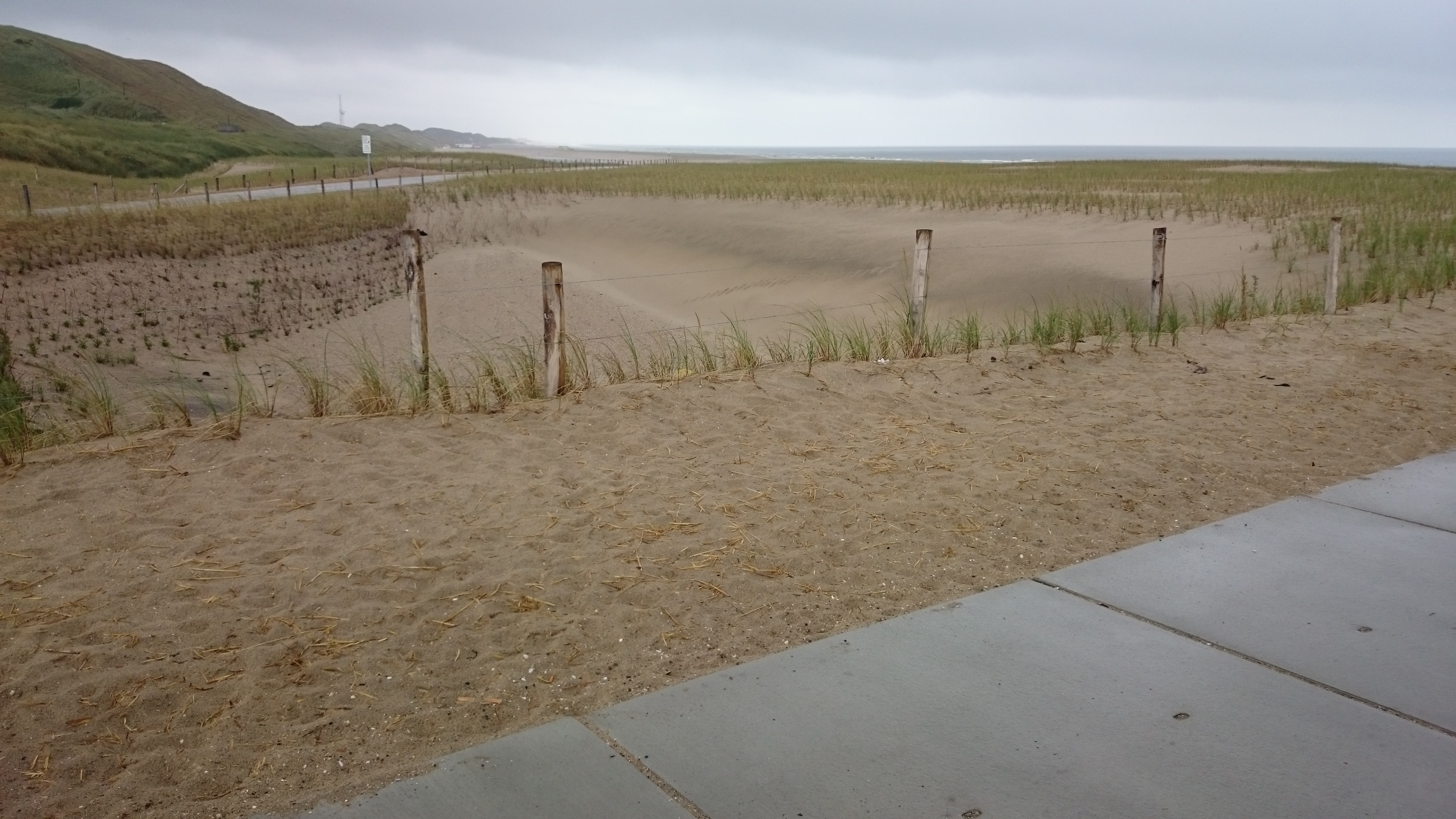 View of the Hondsbossche Zeewring after reconstruction; looking south